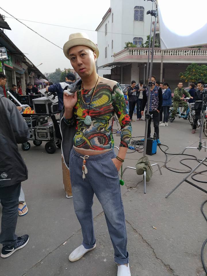 Hong Kong actor, Sunny Tai